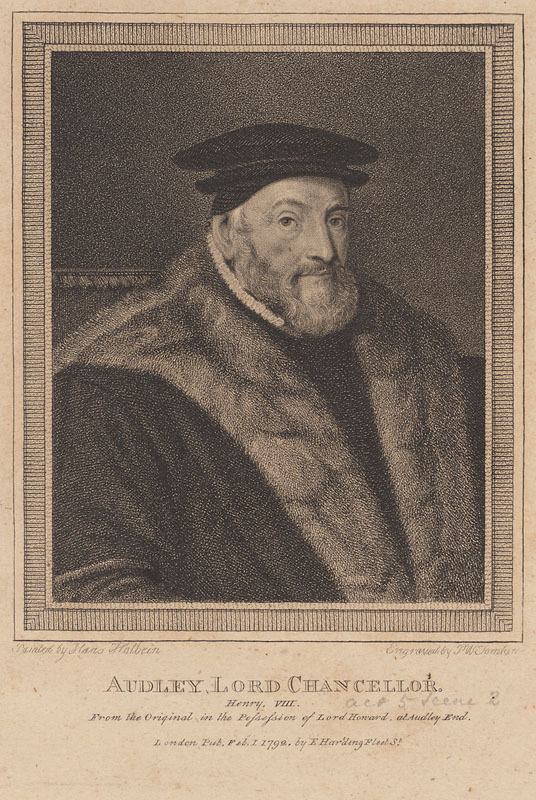 Thomas Audley, 1st Baron Audley of Walden (1488-1544)